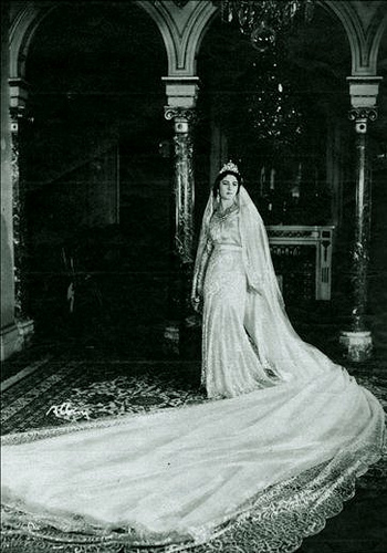 The gown was designed by The House of Worth under the direction of Jacques and Roger Worth created a silver lace over satin gown with long lace sleeves. The gown also featured a slightly gathered bodice and an eight yard (around 7 and a half meters) train swung from the shoulders and made of silver lamé. the veil was made of tulle, edged with the silver lace of the gown, the blusher part didn't have the lace edging. the veil was about half a yard longer than the train.